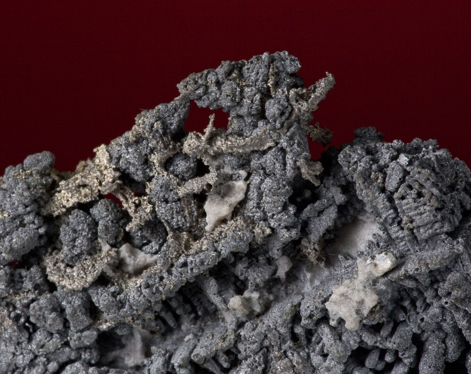 Safflorite, Silver Locality: Langis Mine (Casey Mine; Casey-Seneca Mine), Casey Township, Cobalt Area, Cobalt-Gowganda region, Timiskaming District, Ontario, Canada Size: 8 x 5.5 x 2.5 cm A fine, hefty specimen featuring thick wires of silver that are now replaced by the rare cobalt-iron-nickel mineral species, safflorite. This is very likely an old piece from the middle 1900s or earlier, and came from the noted Cobalt silver collection of John Durkos, and then to collector Robert Hauck some time ago. Joe Budd photos.